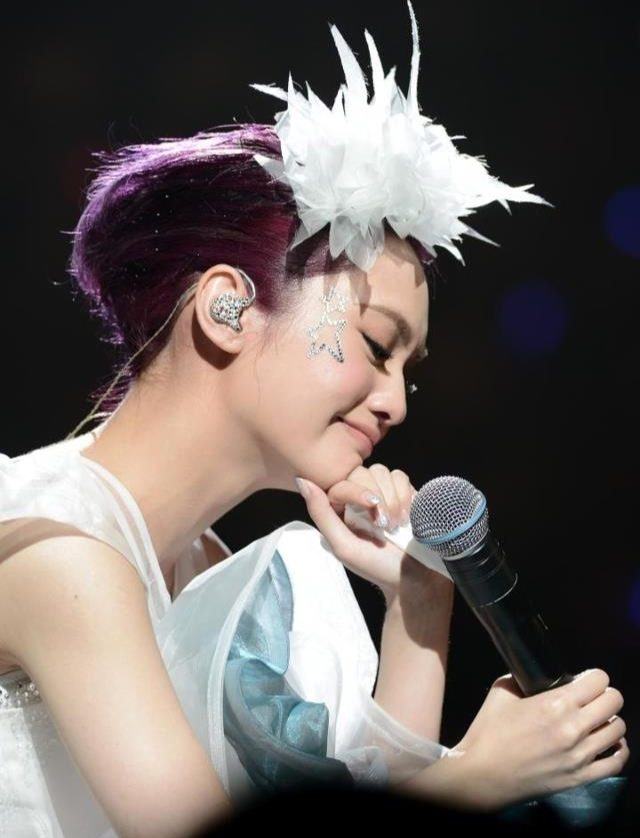 @ 2013 Taipei Concert